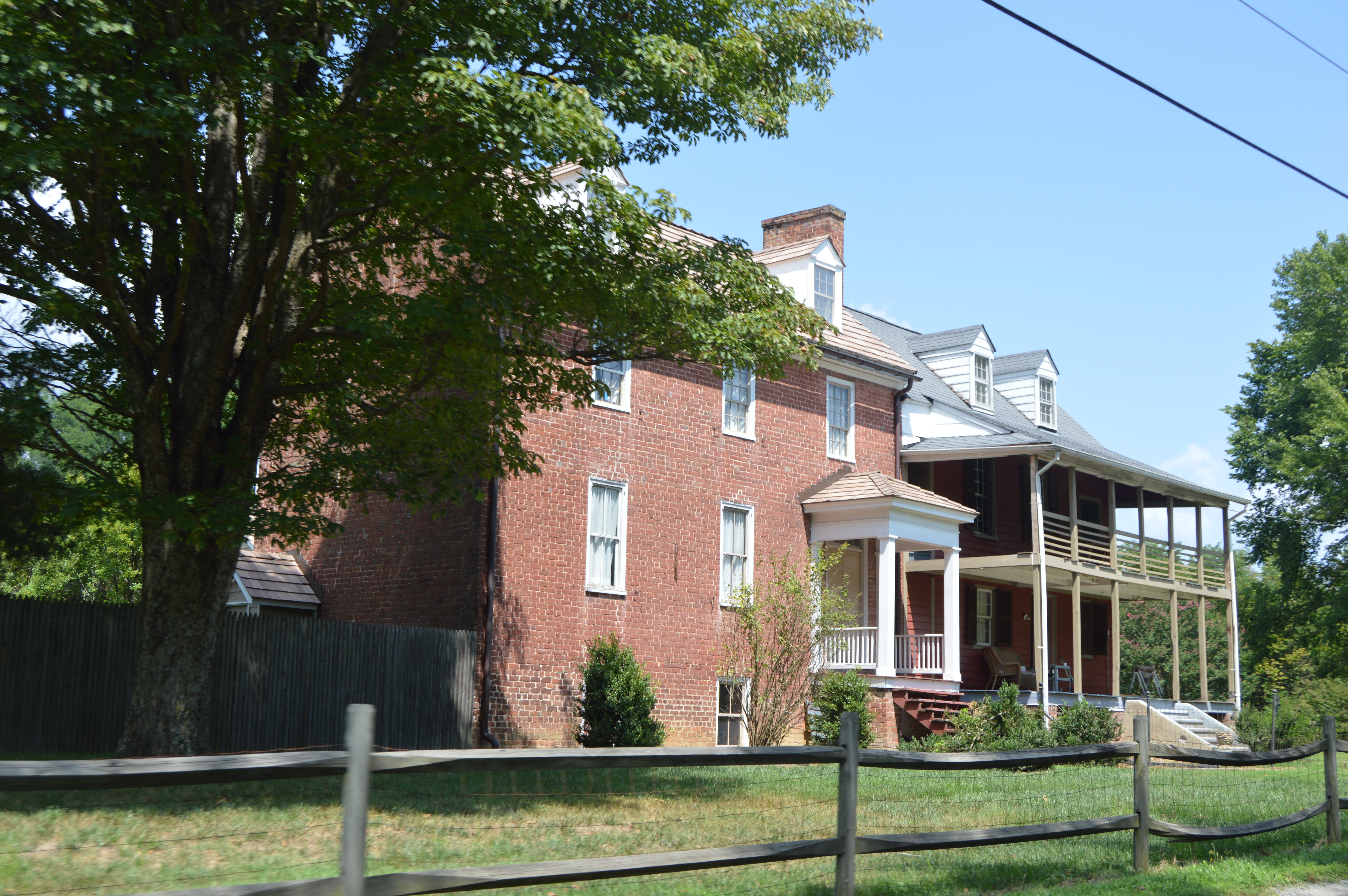 Front of the Tavern at Old Church, located at 3350-3360 Old Church Road at Old Church in Hanover County, Virginia, United States. Built in 1830, it is listed on the National Register of Historic Places.